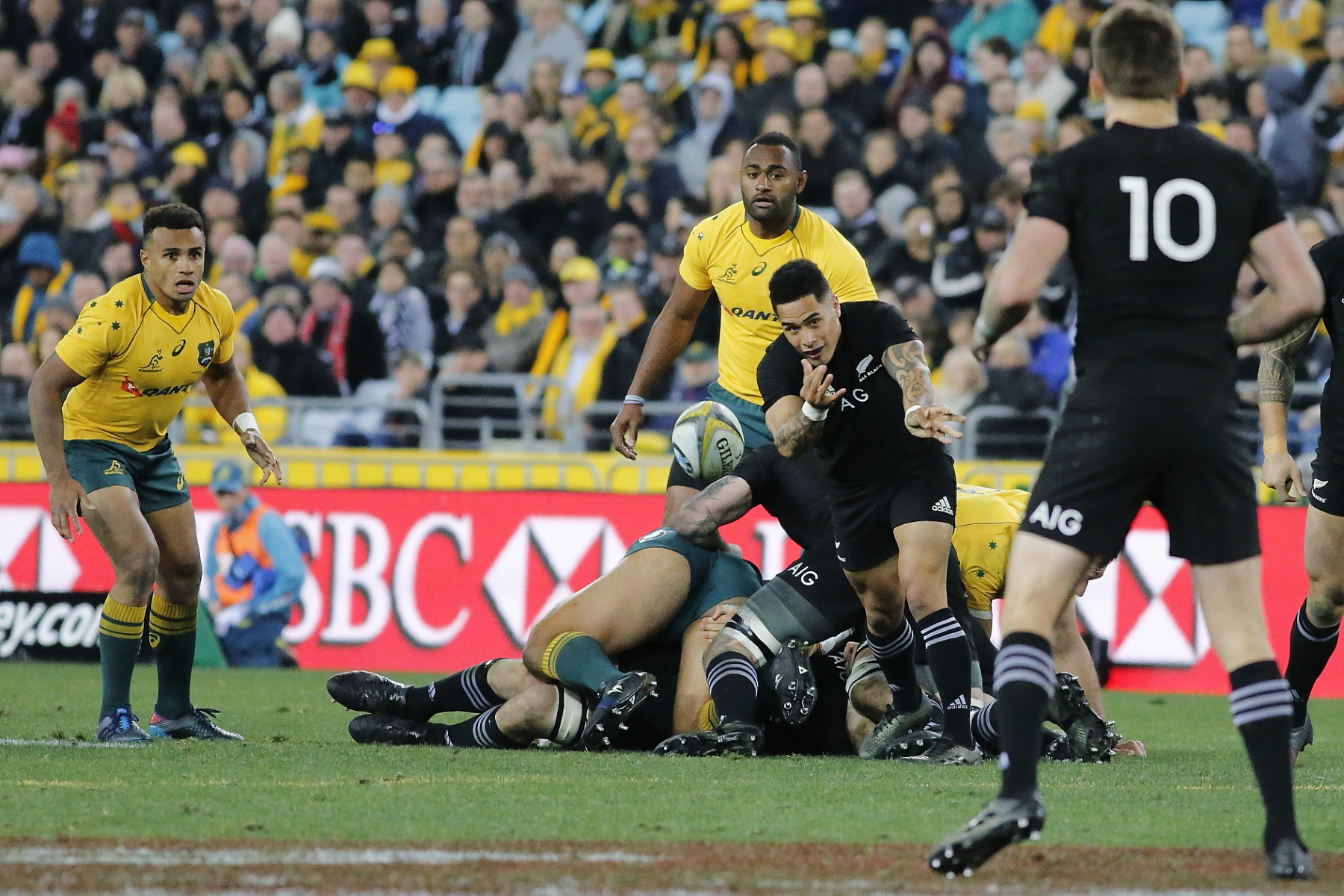 2017.08.19.21.08.24-Aaron Smith 2017 Rugby Championship, Bledisloe 1, Australia vs New Zealand, 19th August, ANZ Stadium, Sydney